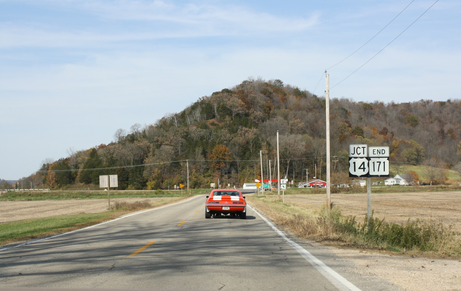 The east terminus for Wisconsin Highway 171 at U.S. Route 14 just north of Boaz, Wisconsin.